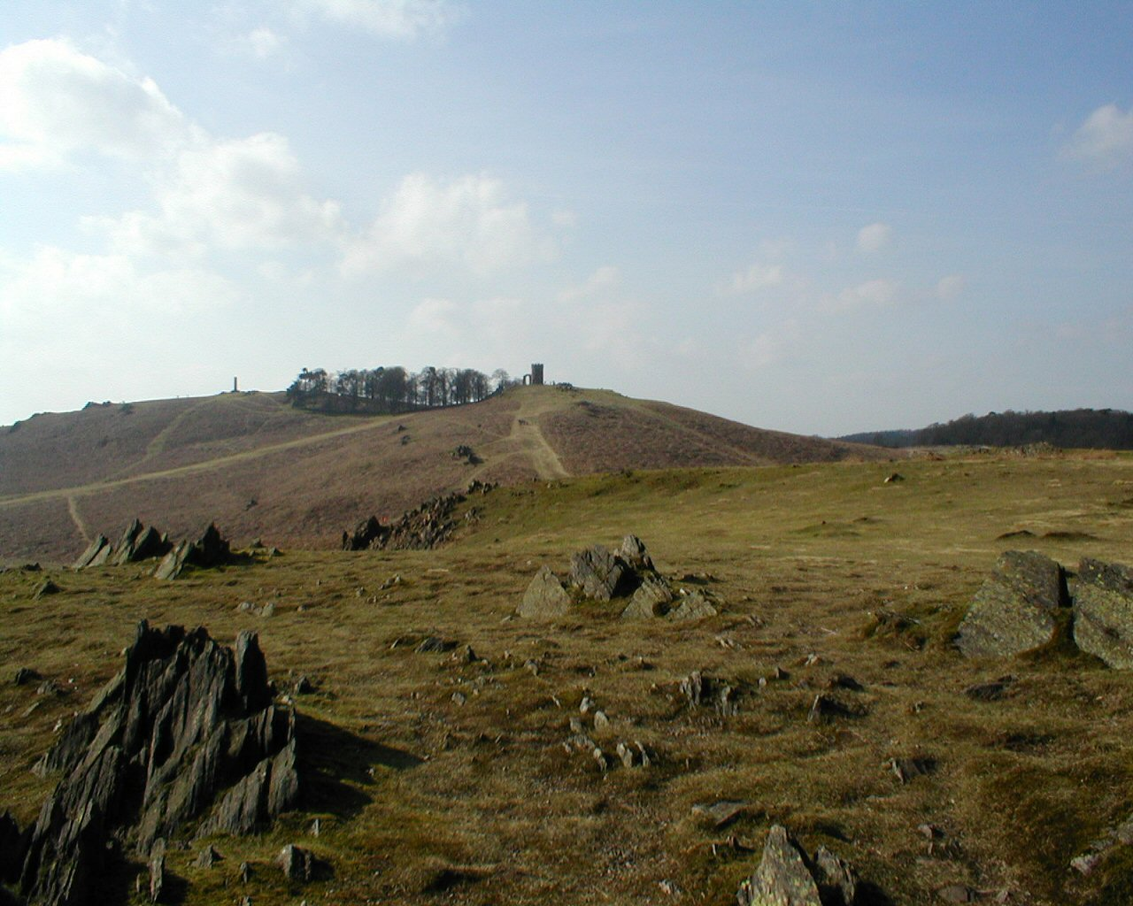 Bradgate Park, rocks with Old John and the War Memorial. Taken by Andrew Norman